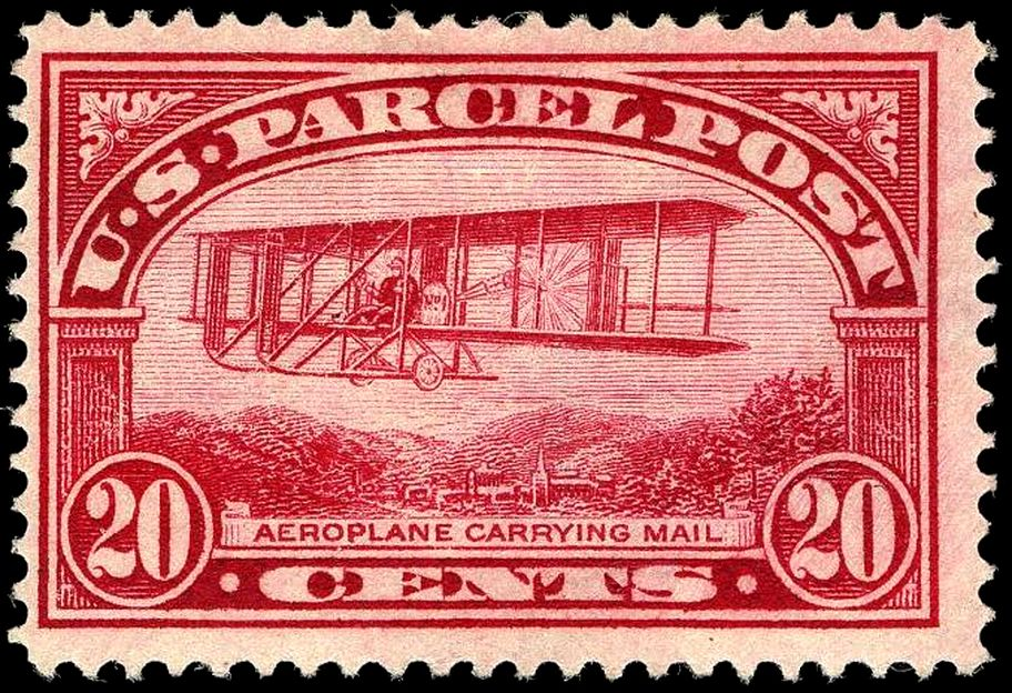 Image of 20c Parcel Post stamp of 1912The 20-cent U.S. Parcel Post stamp of 1912 was the first stamp in history to depict an airplane, six years before the U.S. Post Office Department issued stamps for airmail service.